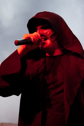 Singer of Wisdom: NG The Mask